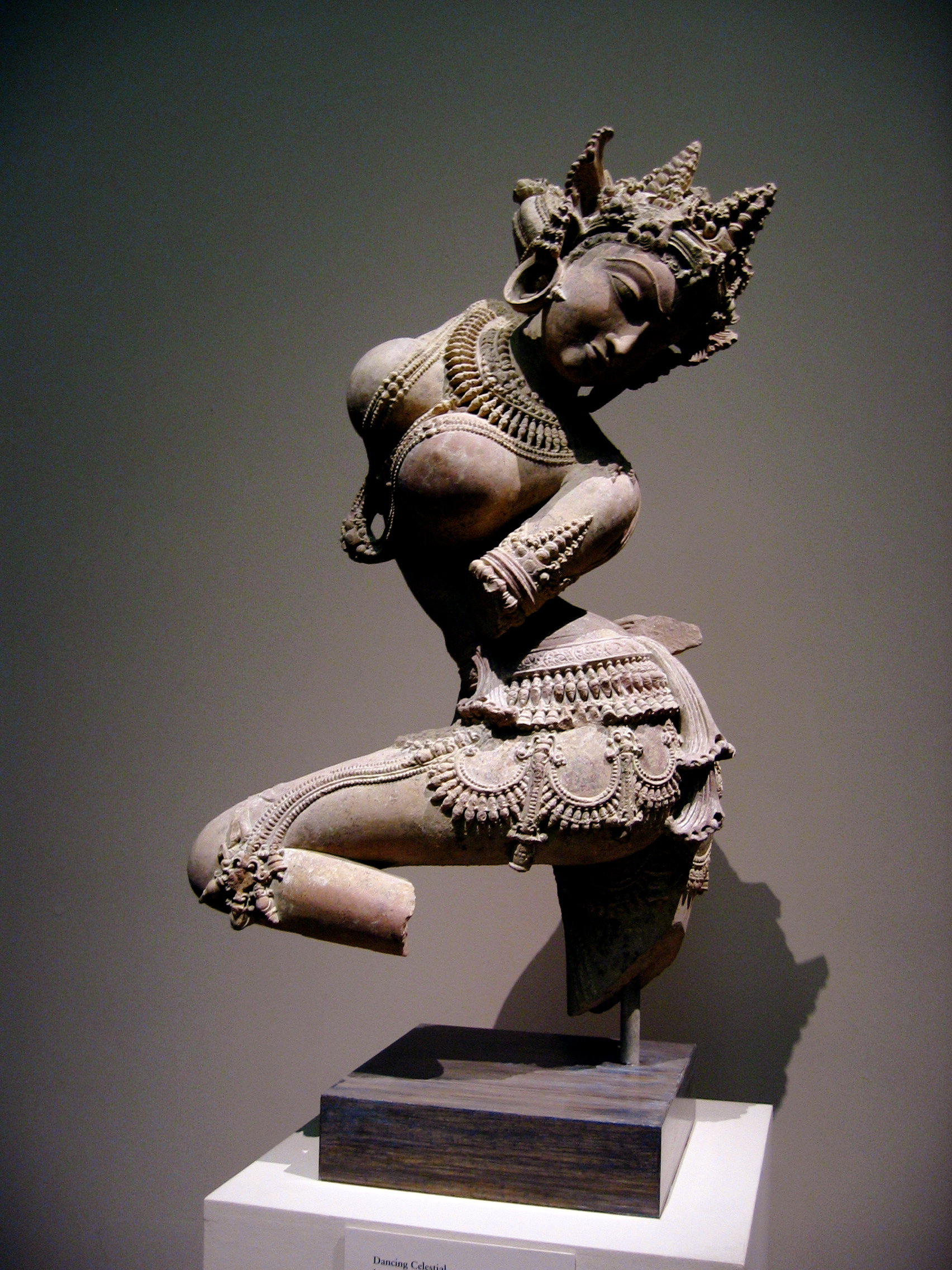 Dancing Celestial India (Uttar Pradesh). Early 12th century. Sandstone. H. 331/2 in. (85.1 cm) Promised Gift of Florence and Herbert Irving (L 1993.88.2) Metropolitan Museum of Art, NYC. The contours and richly ornamented surfaces of this celestial attendant to the gods exemplify a stylistic shift away from earlier Gupta-influenced forms. Here the linear play of surface decoration and dramatic contours replace the earlier emphasis on seamless volume and subtle balance. The sculptor has twisted the figure into an extraordinary pose that captures the essence of her dance and seems absolutely believable until one imagines actually trying to turn this way. The jewelry sways and emphasizes her movements, both in the way the necklaces and sashes follow the curves of her body and in the upward thrust of the spiked tips of her crown. The crisp carving of her adornments makes a pleasing contrast with the smooth and rounded surfaces of her flesh. Images of dancing semidivine attendants often appear on the outer walls of Hindu temples. They are placed near the figures of gods to honor the deity, just as actual female dancers honored the gods’ images within the temple.